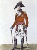 Sir David Dundas - Official Portrait by Robert Dighton